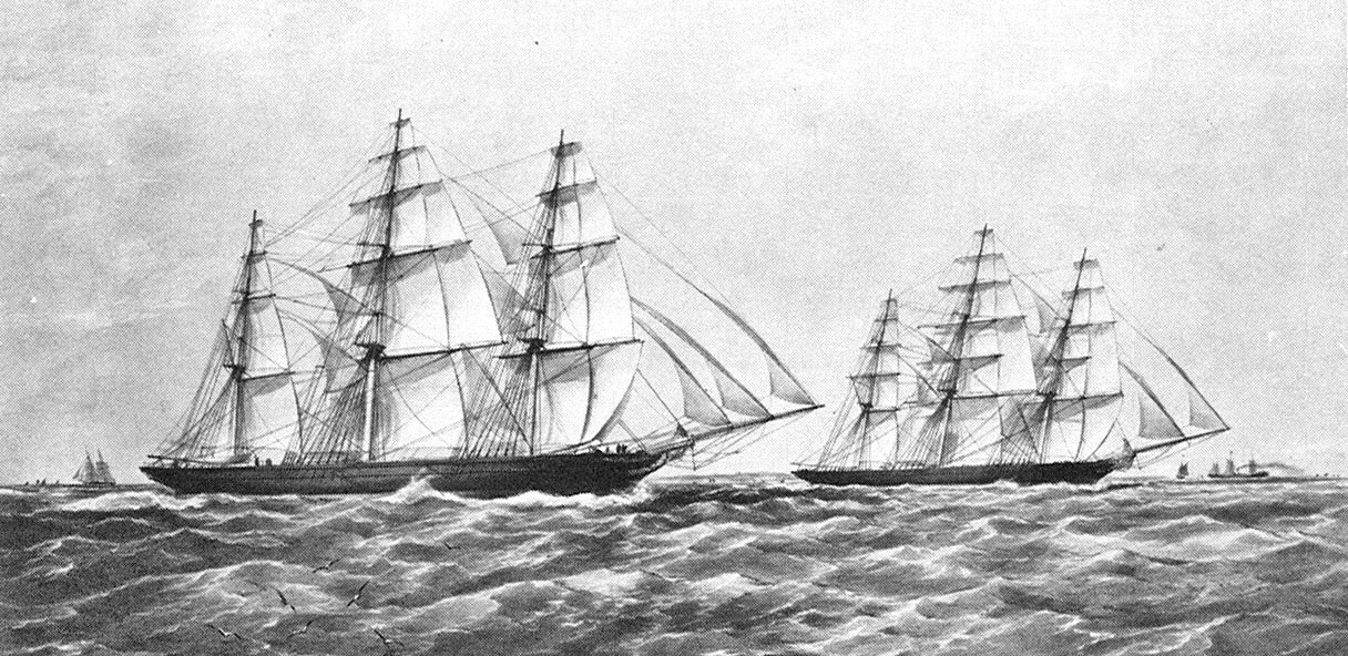 The great race from China to long in 1866. The Tea Clippers ‚Taeping‘ and ‚Ariel‘ of the Lizzard.This rendition taken directly from the book 'The Great Days of Sail by Andrew Shewan (1849-1927), Published by Heath Cranton (1927). Originally sourced from the book The clipper ship era: an epitome of famous American and British clipper ships, their owners, builders, commanders, and crews 1843-1869 by Arthur Hamilton Clark, 1841-1922. Published November 1910, page 328; unknown artist; c. 1886. See below for link... The caption in the 1910 book is " The Ariel and Taeping" Running up channel, September 5, 1868